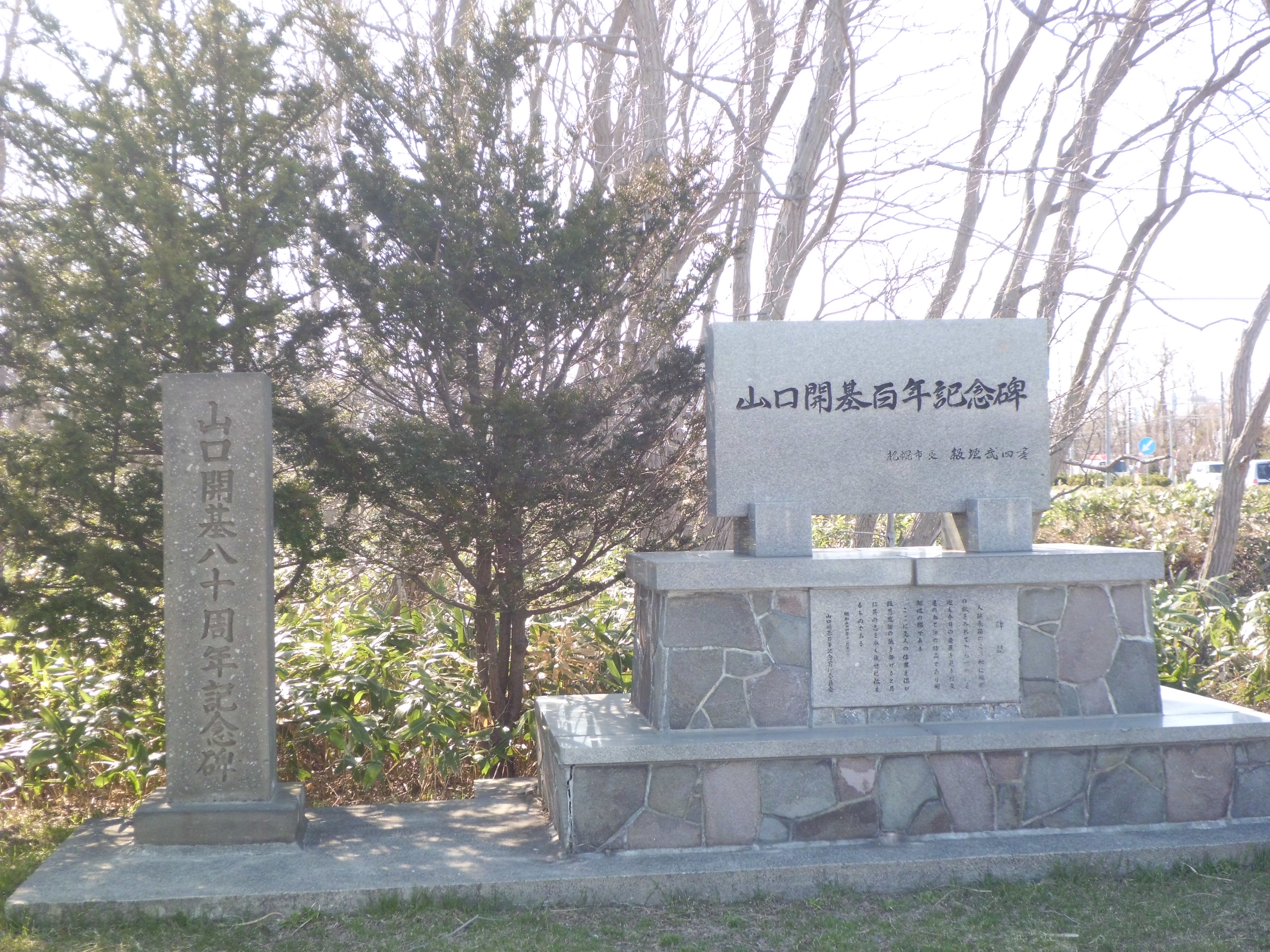 80th Anniversary and Centennial Monument at Yamaguchi Shrine.